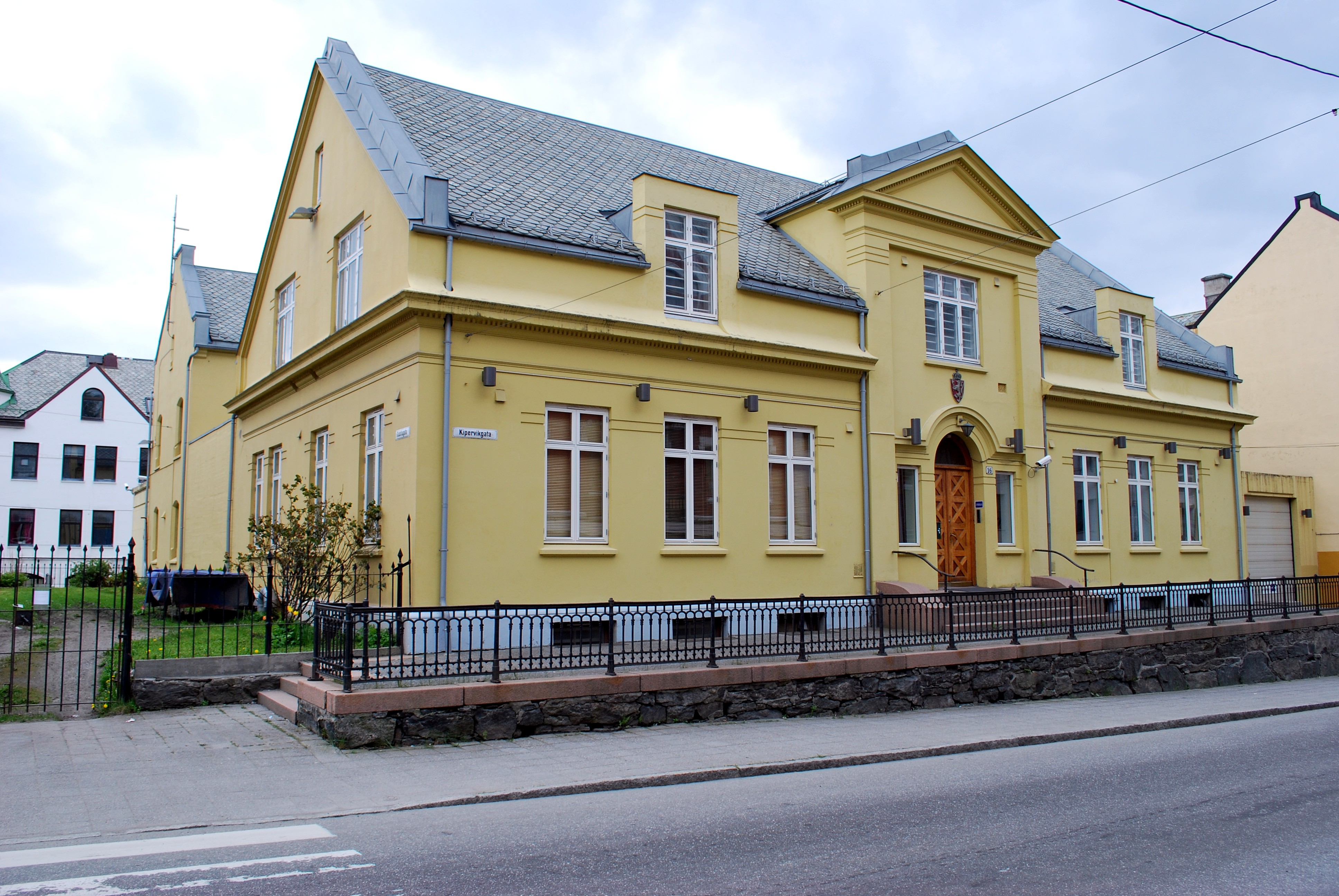 Ålesund Fengsel (prison), Kipervikgata 16, Ålesund. Rådstue mot Kipervikgata tegnet av Carl Michalsen (1907).